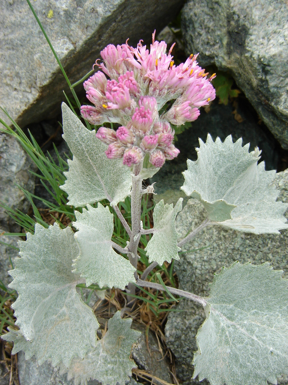 Adenostyles leucophylla in the upper Romanche River Valley, Écrins National Park, France